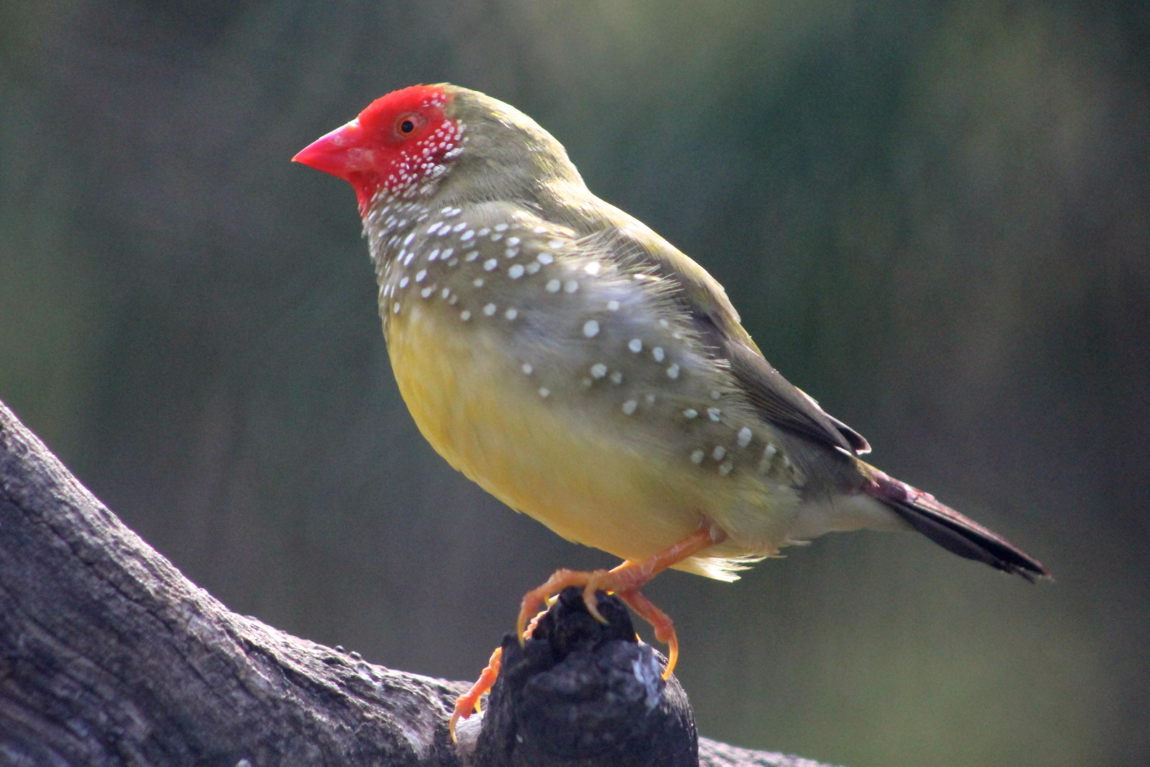 A male Star Finch in Hackney, Adelaide, South Australia.